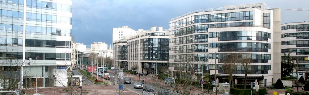 Summary View on Val-de-Seine business district in Issy-les-Moulineaux in the inner suburbs of Paris, France. (Author: Metropolitan)